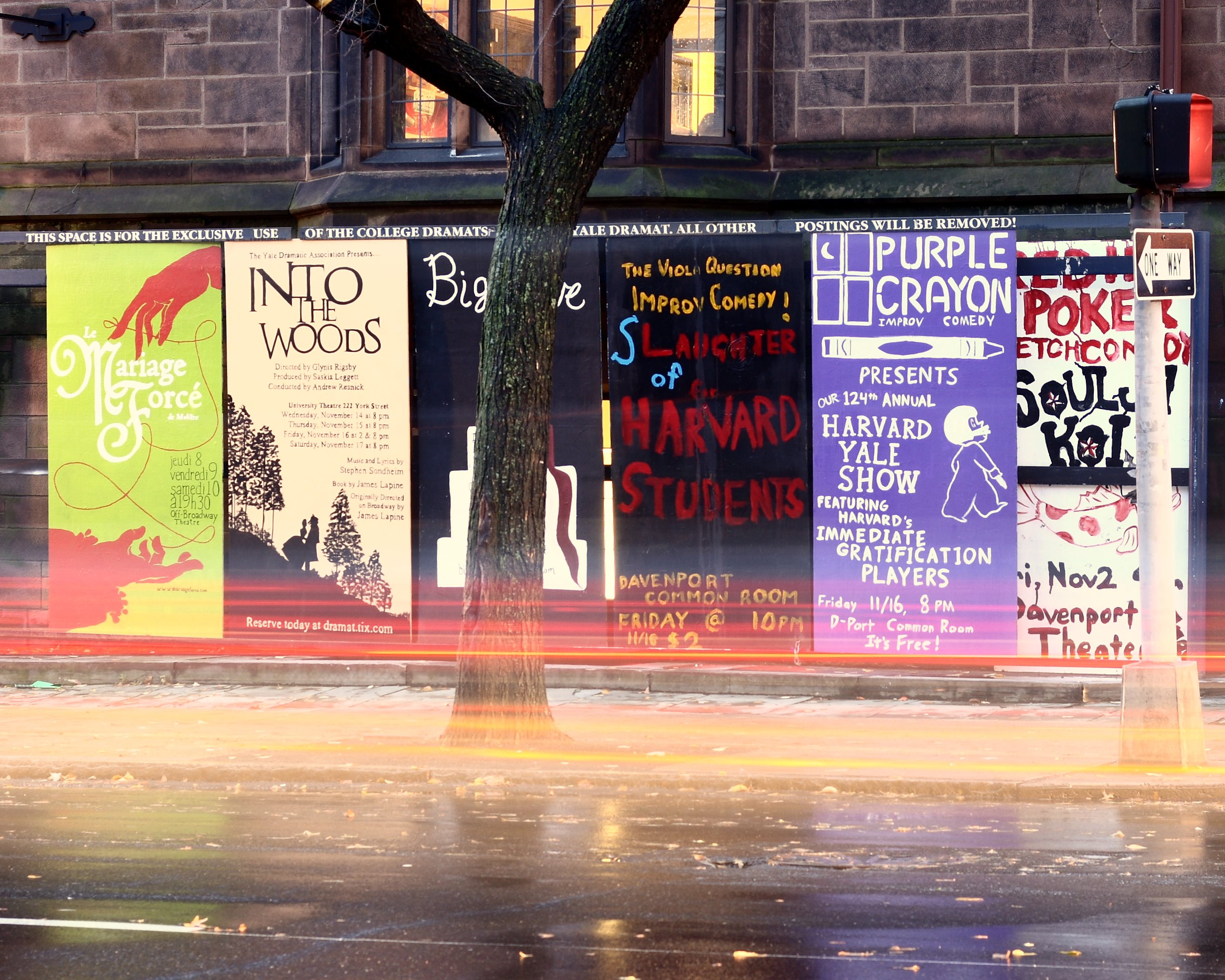 Advertising boards for the productions of the Yale Dramatic Association, on Elm Street on the Yale campus